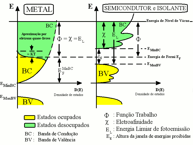 Main energies in structure of bands for crystalline solids.